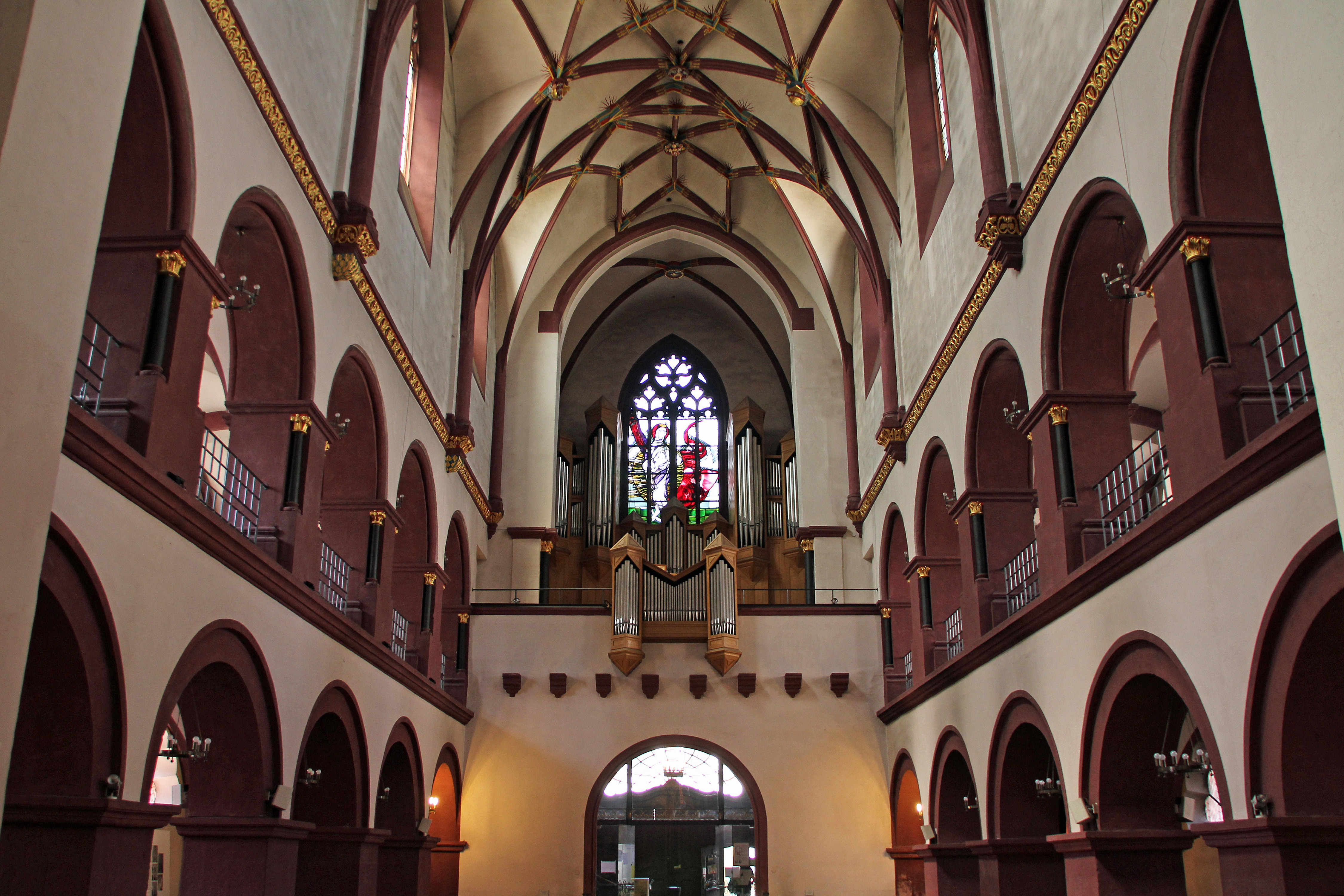 Liebfrauenkirche in Koblenz